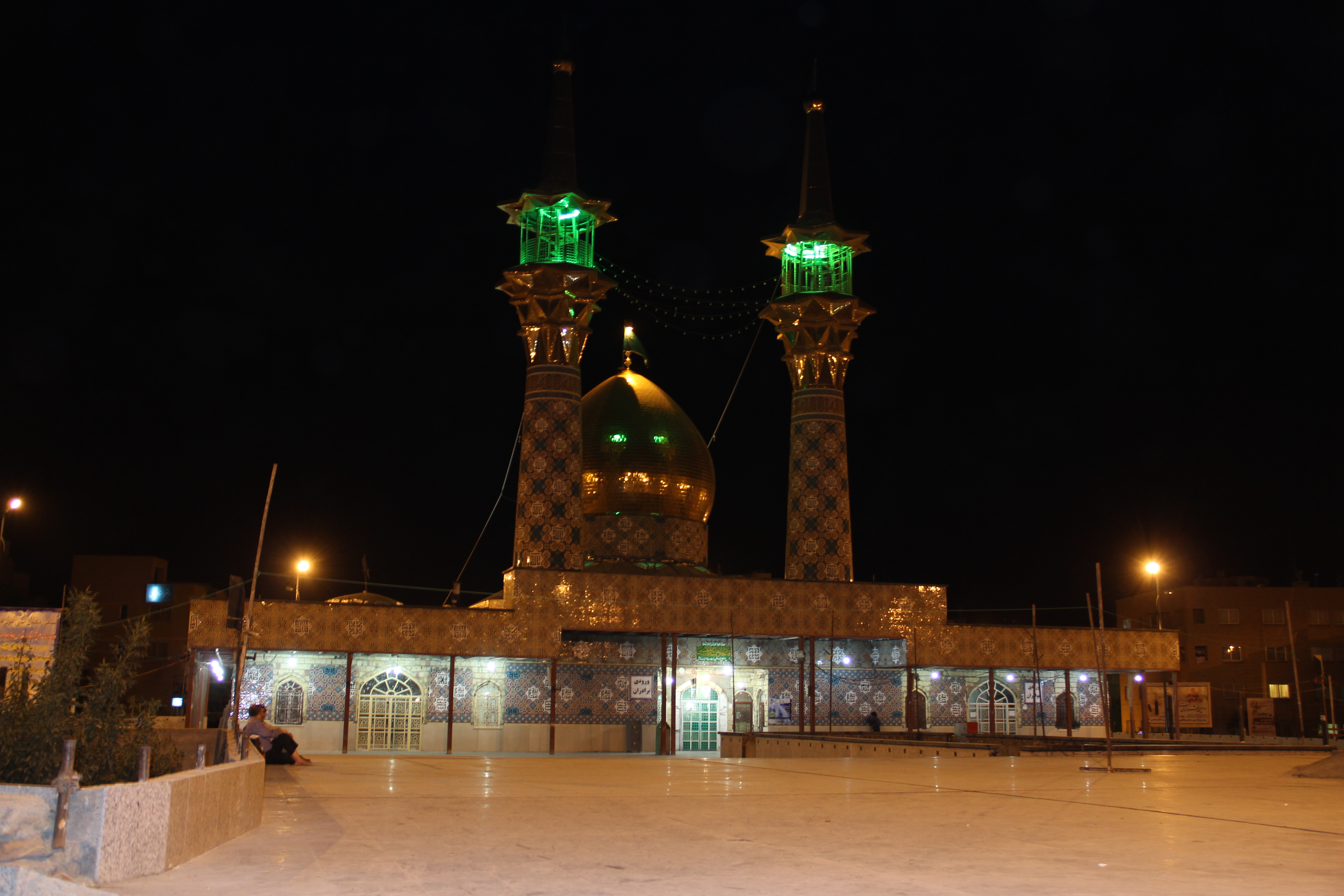 Imamzadeh Abdolla, Hamedn